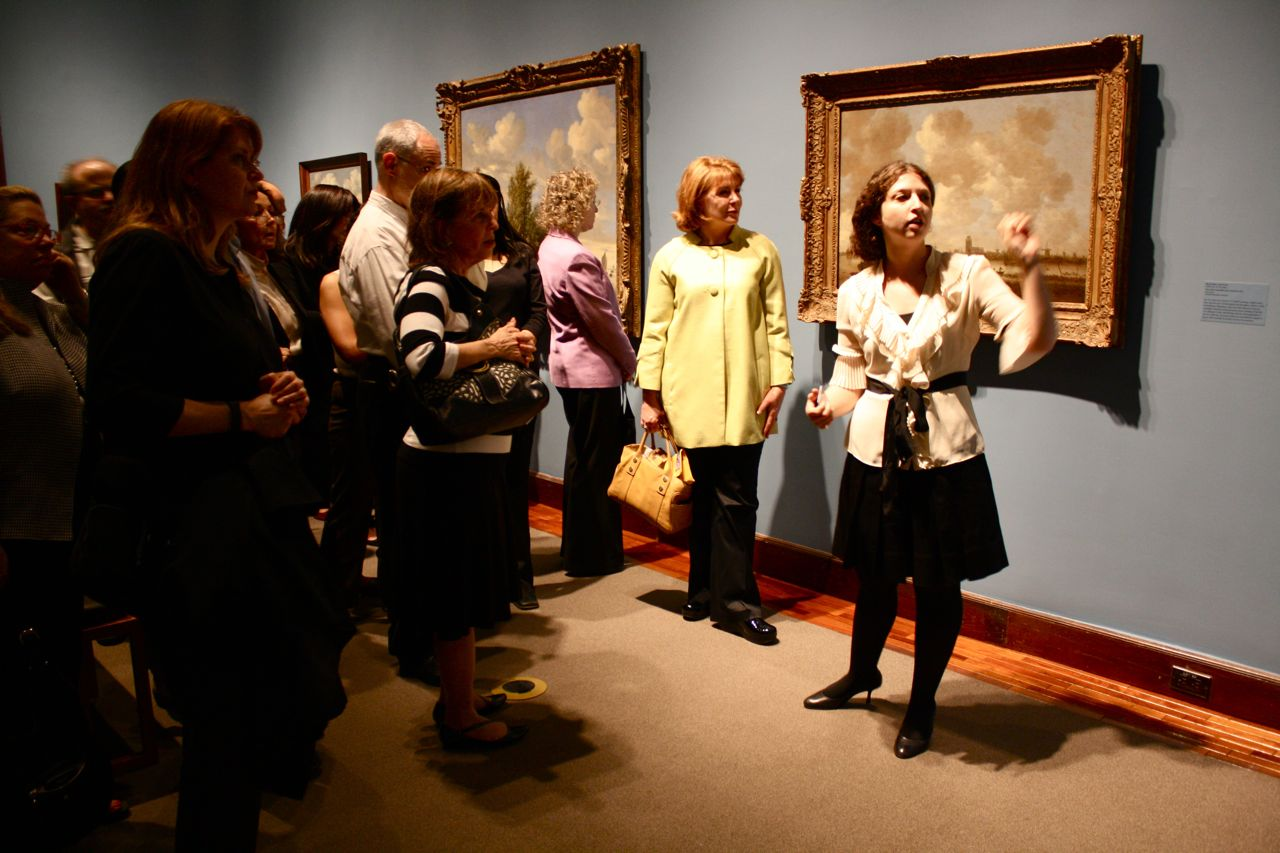 Gaudstikker Exhibition at The Jewish Museum New York